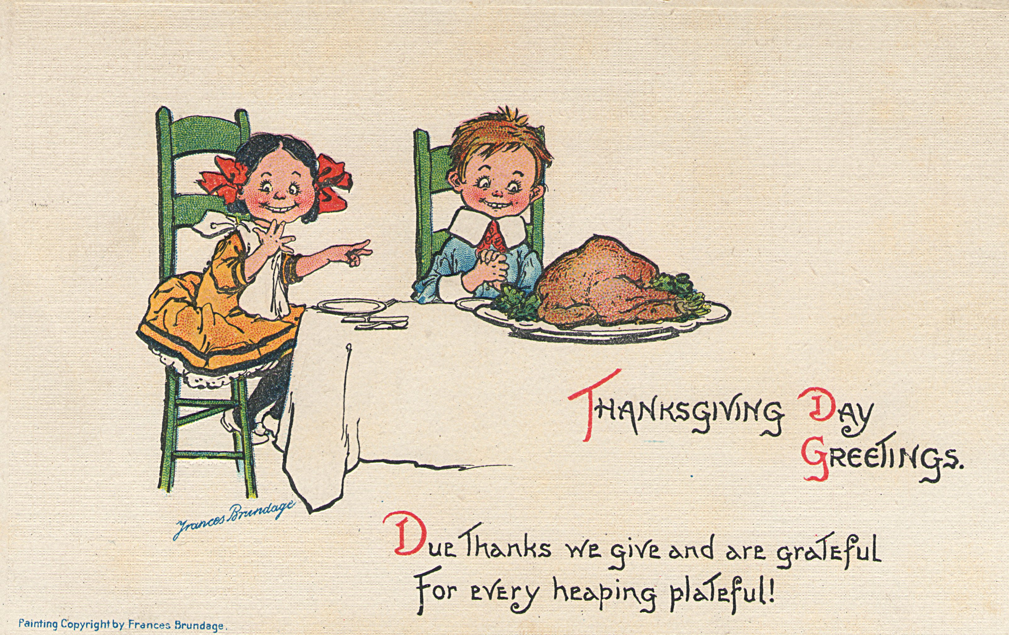 Thanksgiving Day Greetings